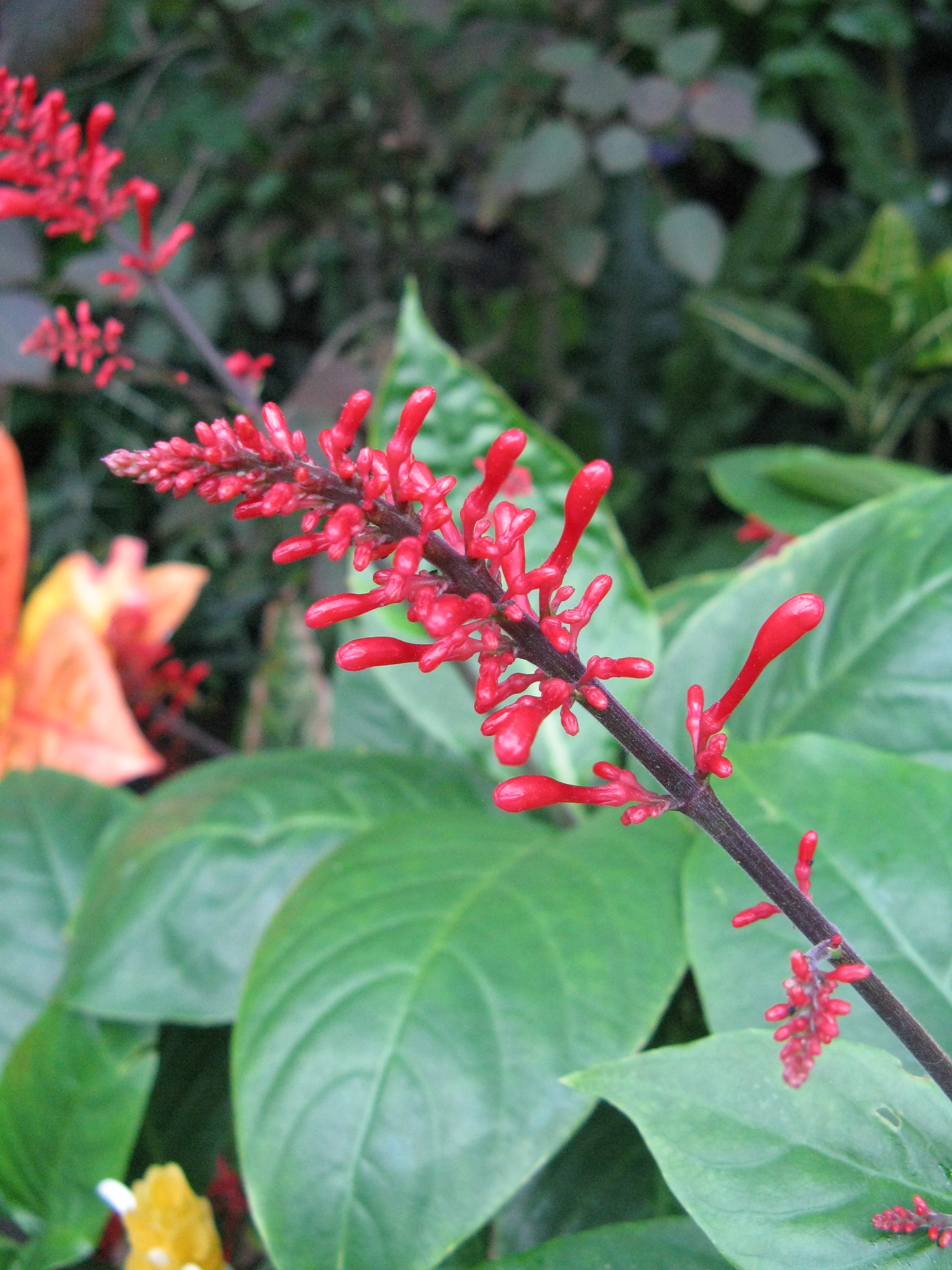 Scientific name Odontonema strictum Place:Itami City Museum of Insects,Hyogo,Japan